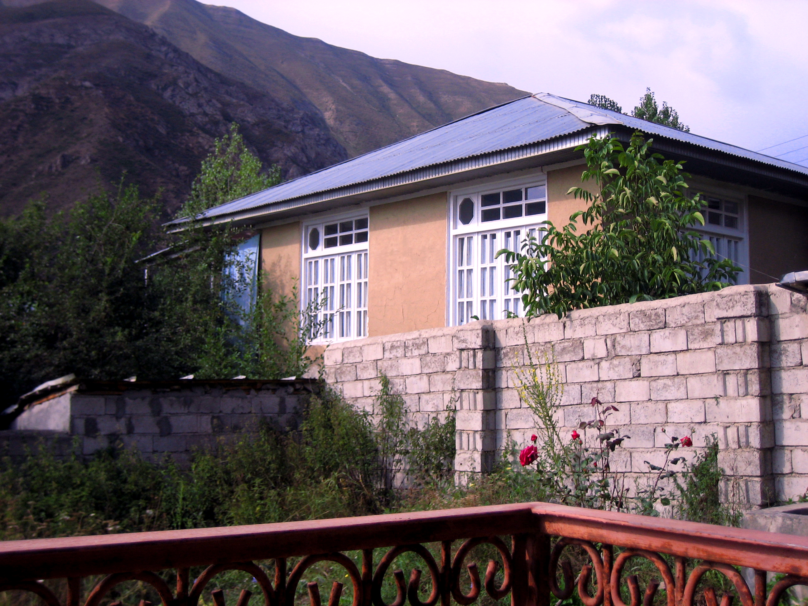 A typical home in Namarestagh